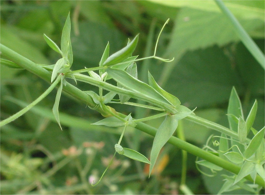 Lathyrus pratensis stem